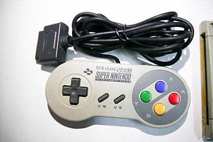 Main Control pad of Hyundai Super Comboy(Super Famicom and Super Nintendo Entertainment System's Korean version)